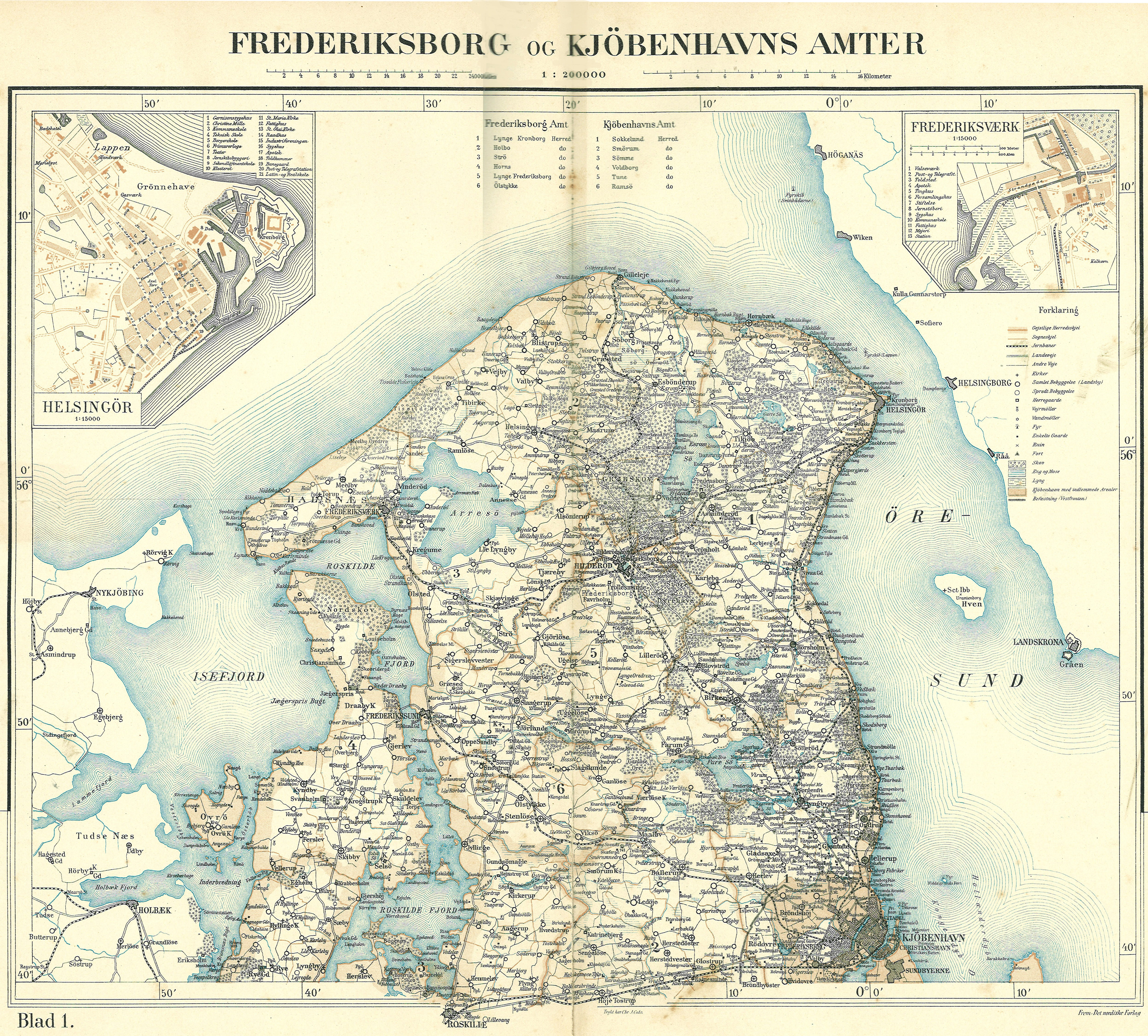 Map of Copenhagen and Frederiksborg Counties in Denmark